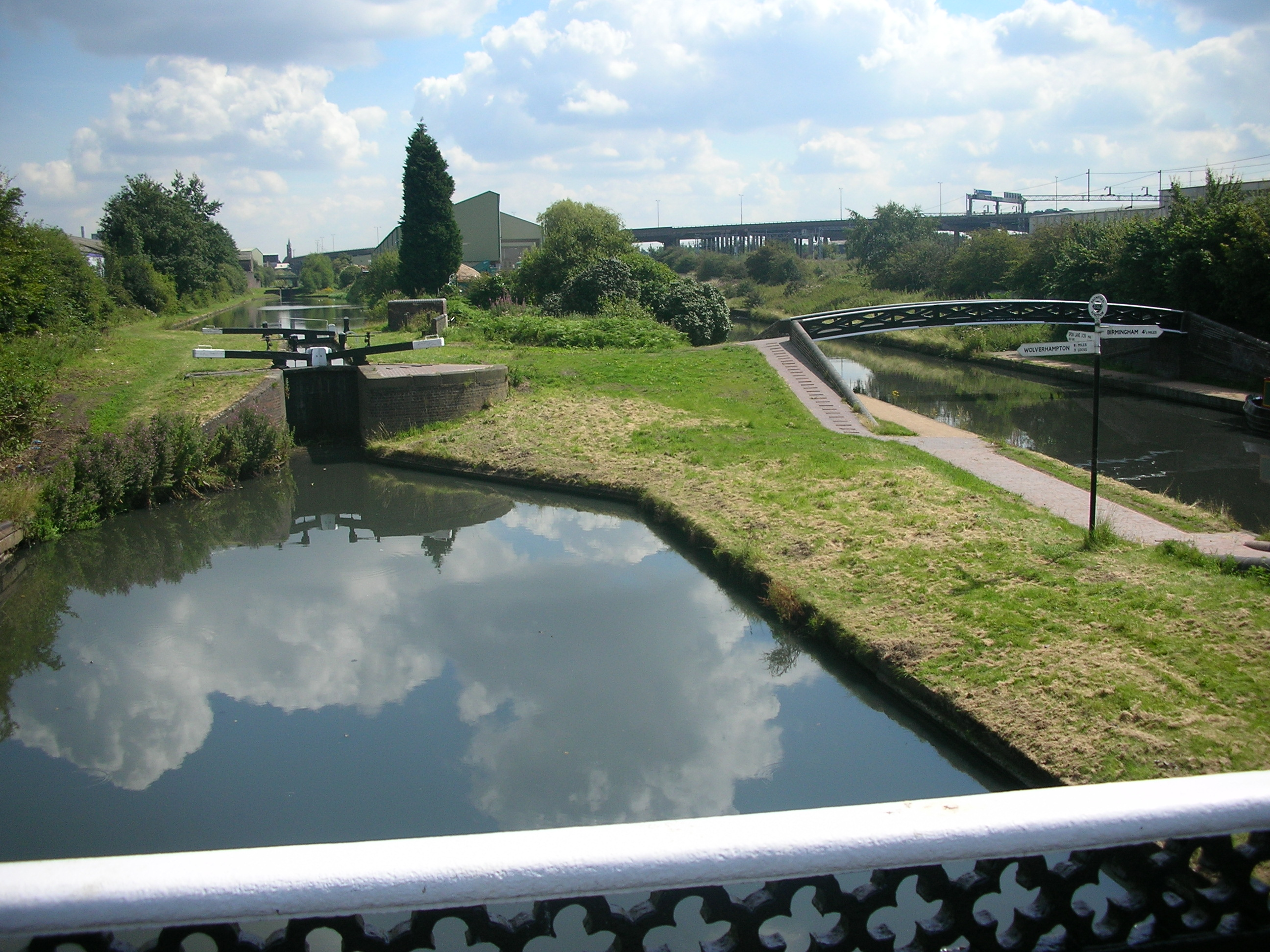 Bromford Junction on the BCN Main Line canal near Oldbury, West Midlands, England. Taken from the Horseley Ironworks roving bridge over the Spon Lane Locks Branch, looking at Spon Lane bottom lock. The other Horseley bridge is over the BCN New Main Line, looking towards Birmingham. Behind the camera, the Island Line (New Main Line) meets the bottom lock of the Spon Lane Locks Branch (originally the Wednesbury Canal - part of the original Birmingham Canal to Wednesbury). In the distance, a raised section of the M5 motorway, and in front of that, the overhead power lines of the Birmingham to Wolverhampton Stour Valley railway line. Photographed by me 9 August 2007. Oosoom